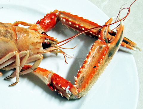 Scampihode med klør